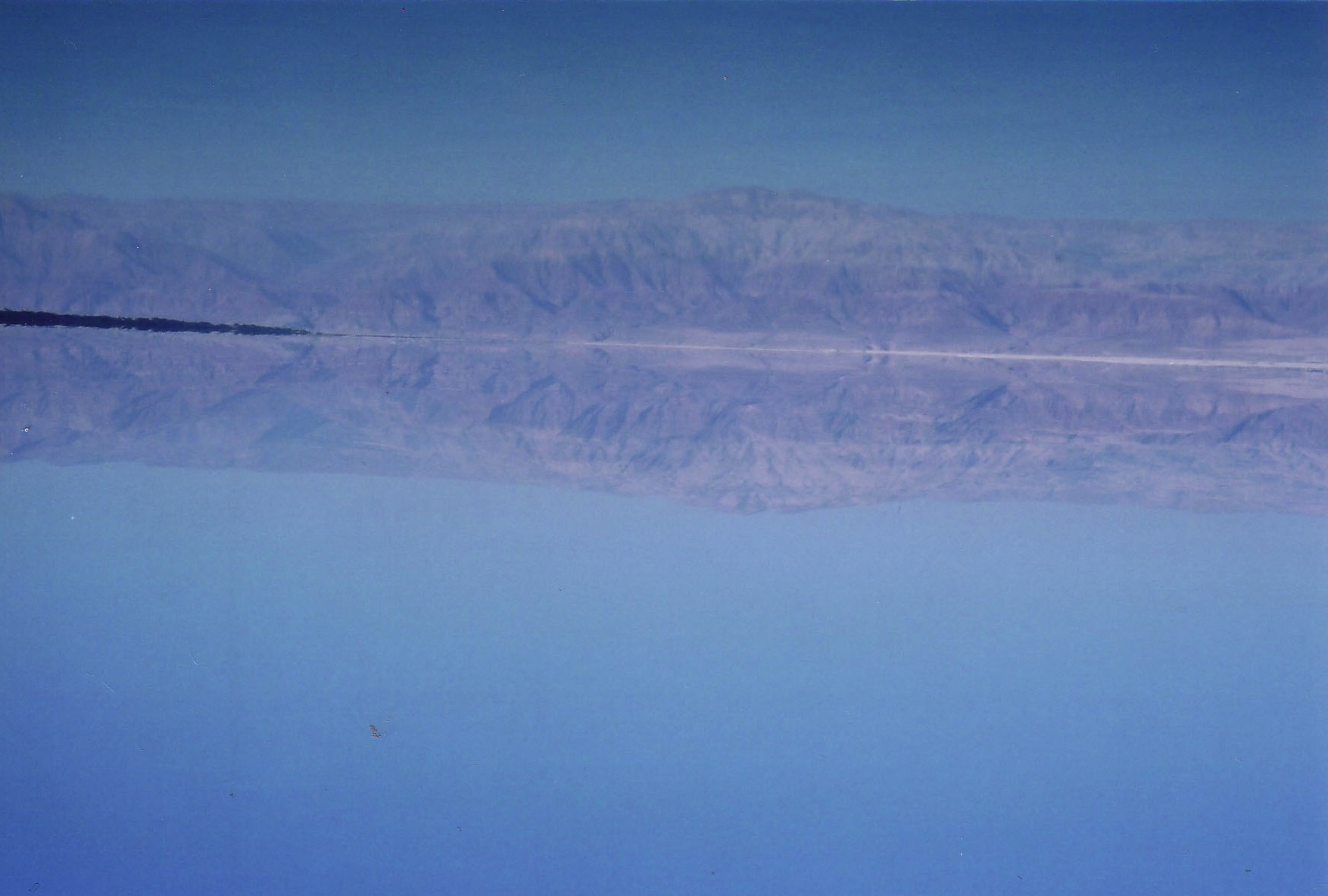 The sea is indeed dead, and in a few decades it will be entirely gone as de-salination projects remove the water from the lake. There are no waves because the water is too heavy to move.